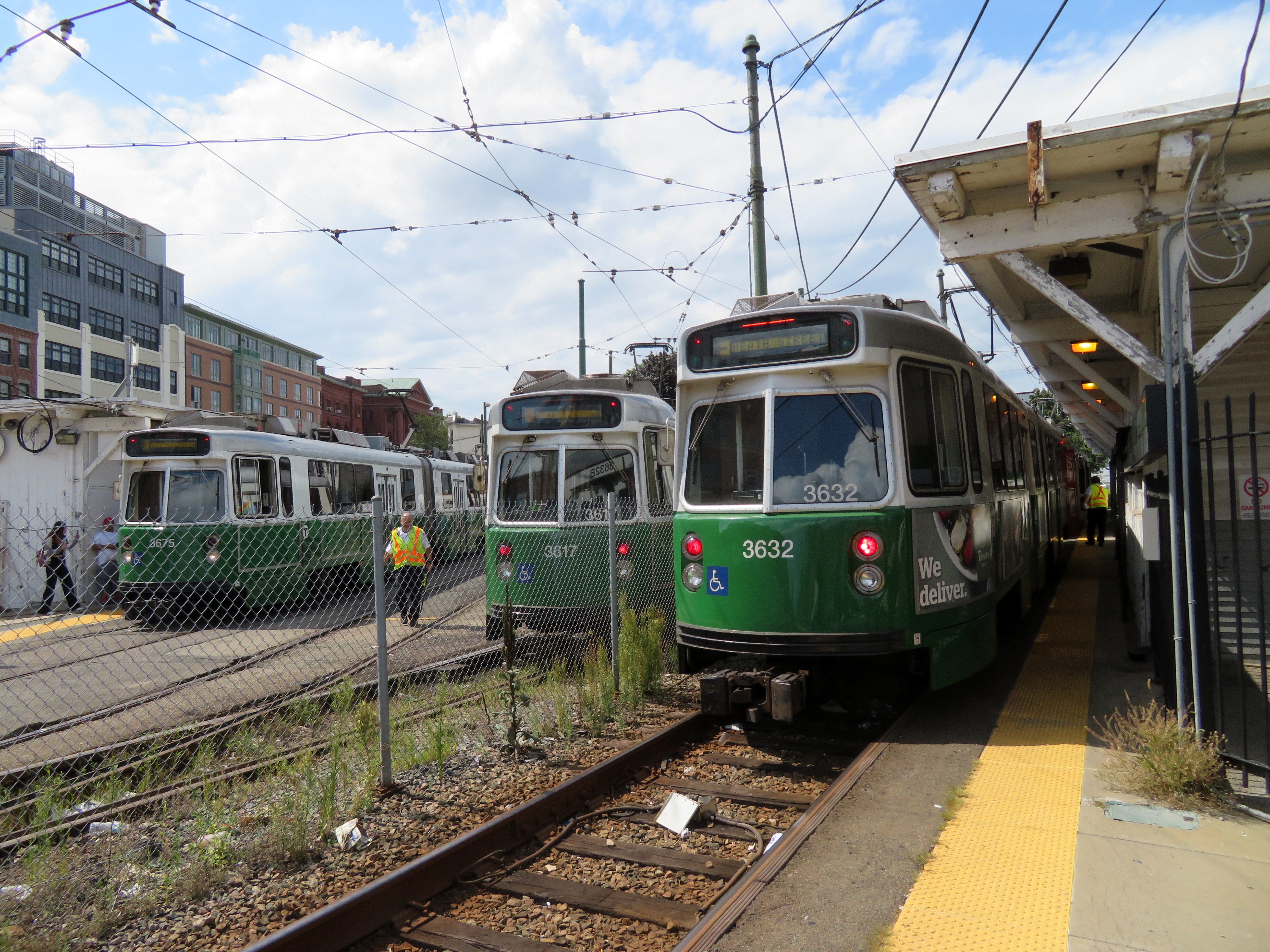 Trains at Lechmere station and Lechmere Yard in August 2018